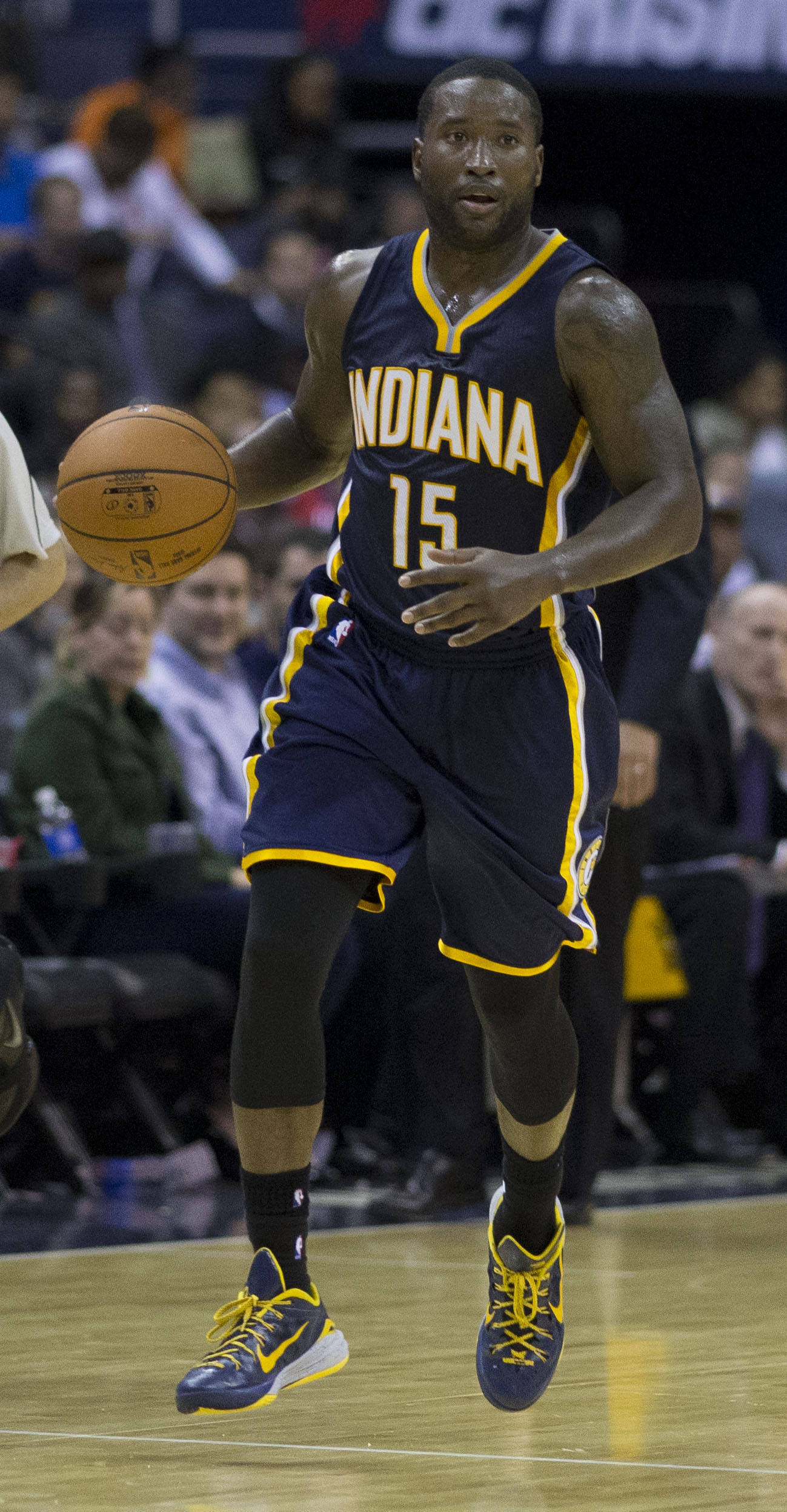 Pacers at Wizards 11/05/14